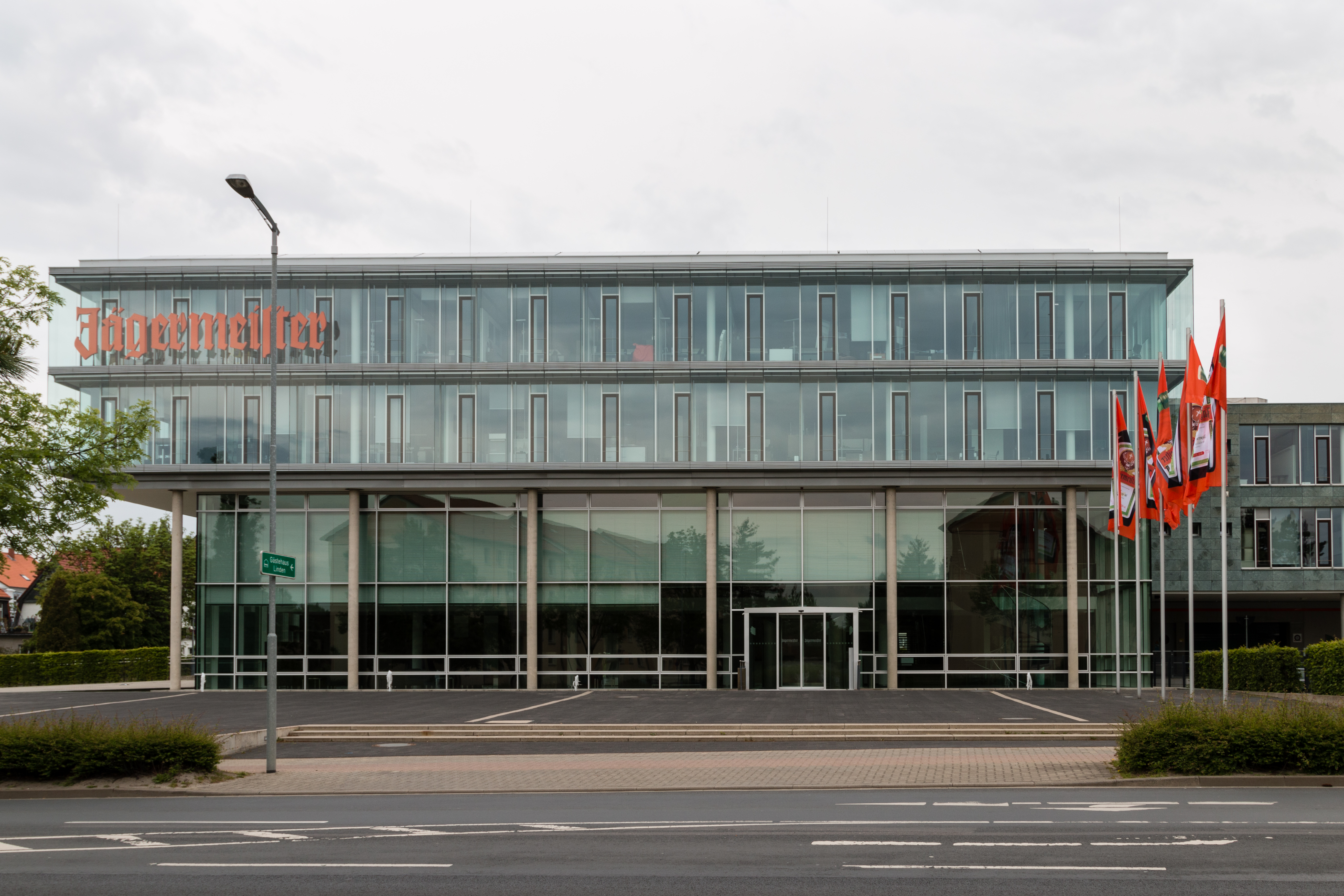 Headquarter of the Mast-Jägermeister SE in Wolfenbüttel, Germany.